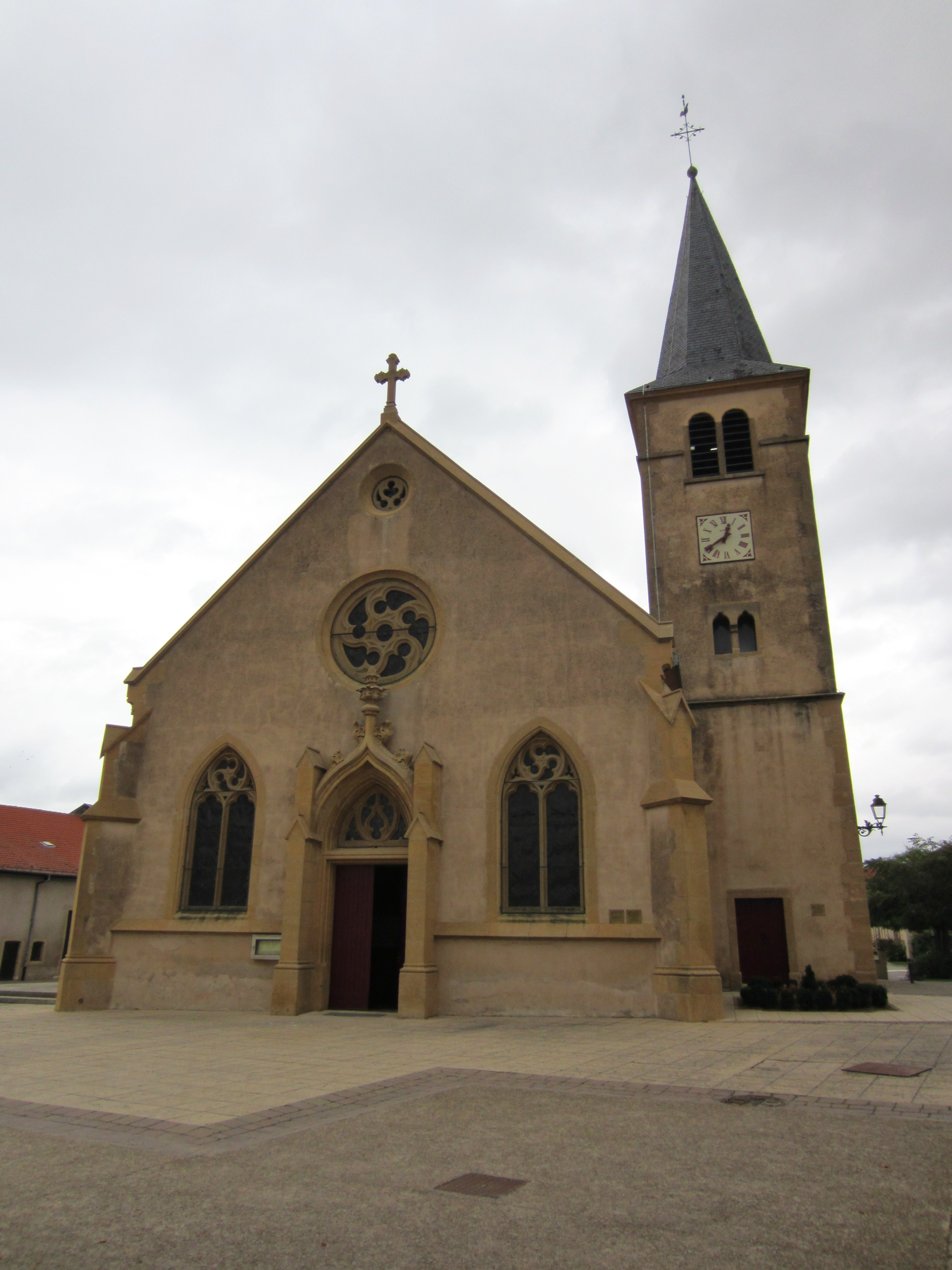 Description eglise Ennery Date8 September 2011Sourcemon appareil photoAuthorAimelaimePermission (Reusing this file) eglise Ennery